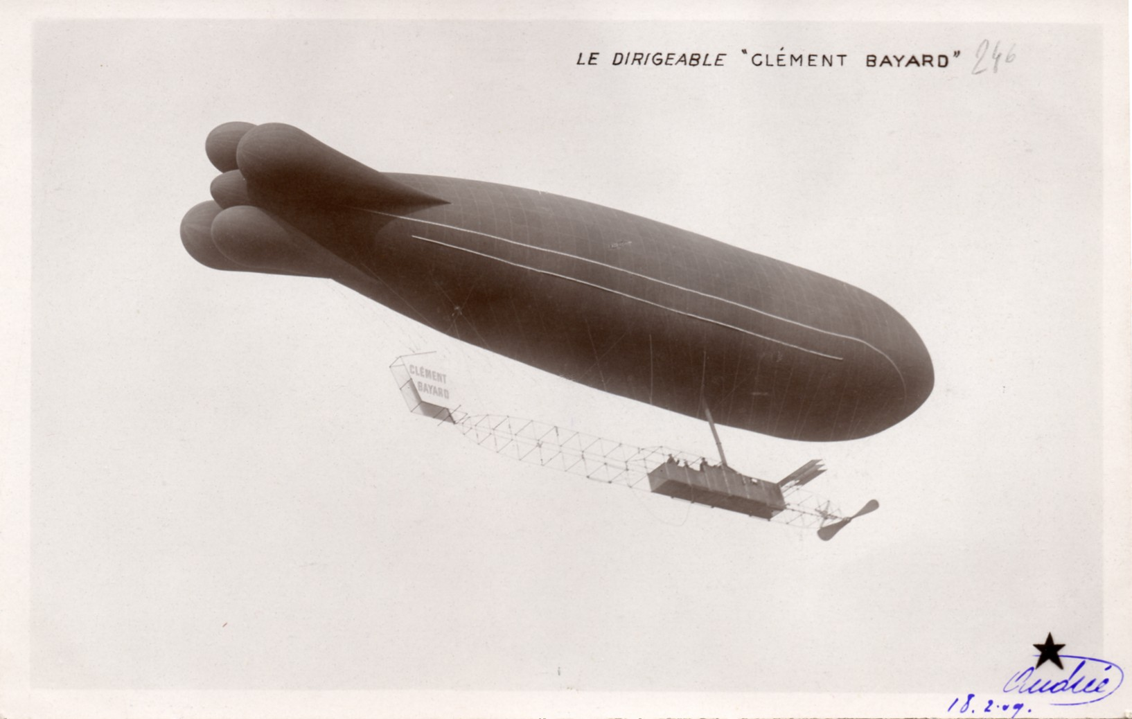 Airship Clément-Bayard n° 1 (Oise - France) in 1908 - vintage postcard - personal collection